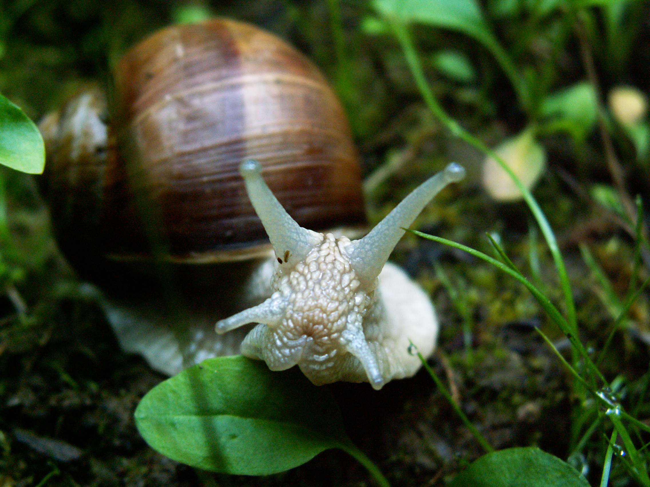 Front close-up of a snail, Helix pomatia